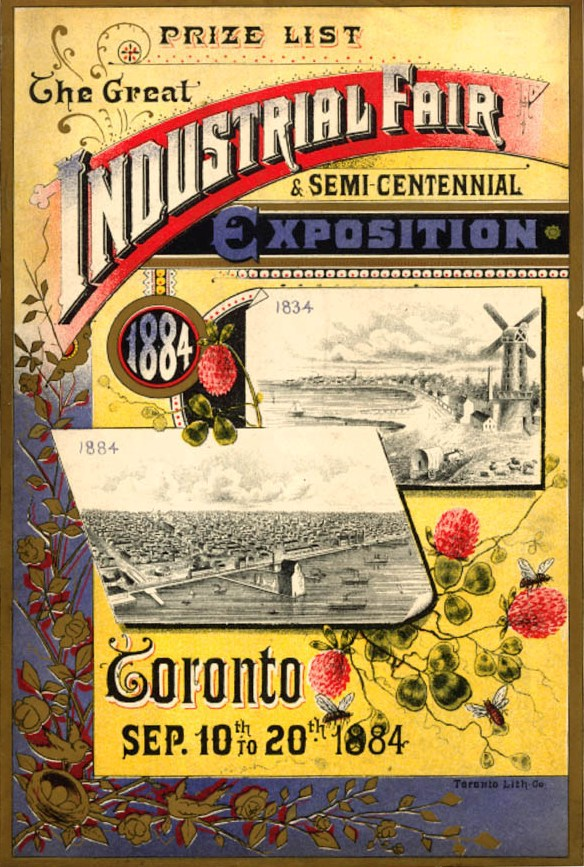 "Industrial Fair and Semi-Centennial Exposition" - Original programme and advertising card. In honour of the 50th anniversary of the incorporation of the City of Toronto (1834 - 1884).